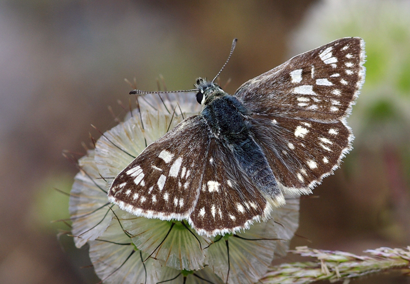 Overwing view of Muschampia tessellum, butterfly species (Tessellated Skipper) from HESPERIDAE. The photo was taken in Ankara, Turkey.